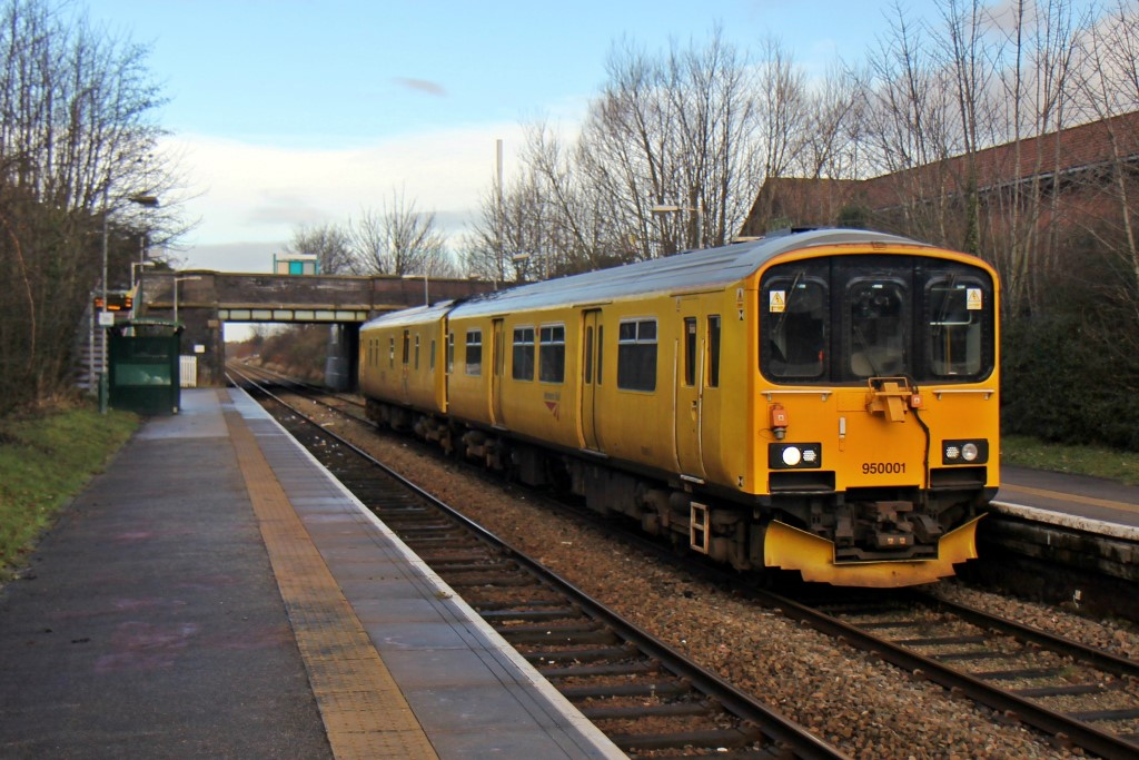 Network Rail Class 950, 950001, Upton railway station